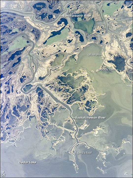 SASKATCHEWAN RIVER DELTA, MANITOBA, CANADA This astronaut photograph highlights a portion of the Saskatchewan River delta extending into Cedar Lake in the province of Manitoba, Canada. Credit: The featured astronaut photograph ISS015-E-7649 was acquired May 11, 2007, by the Expedition 15 crew with a Kodak 760C digital camera using a 400 mm lens. The image is provided by the ISS Crew Earth Observations experiment and the Image Science & Analysis Laboratory, Johnson Space Center. The image in this article has been cropped and enhanced to improve contrast.